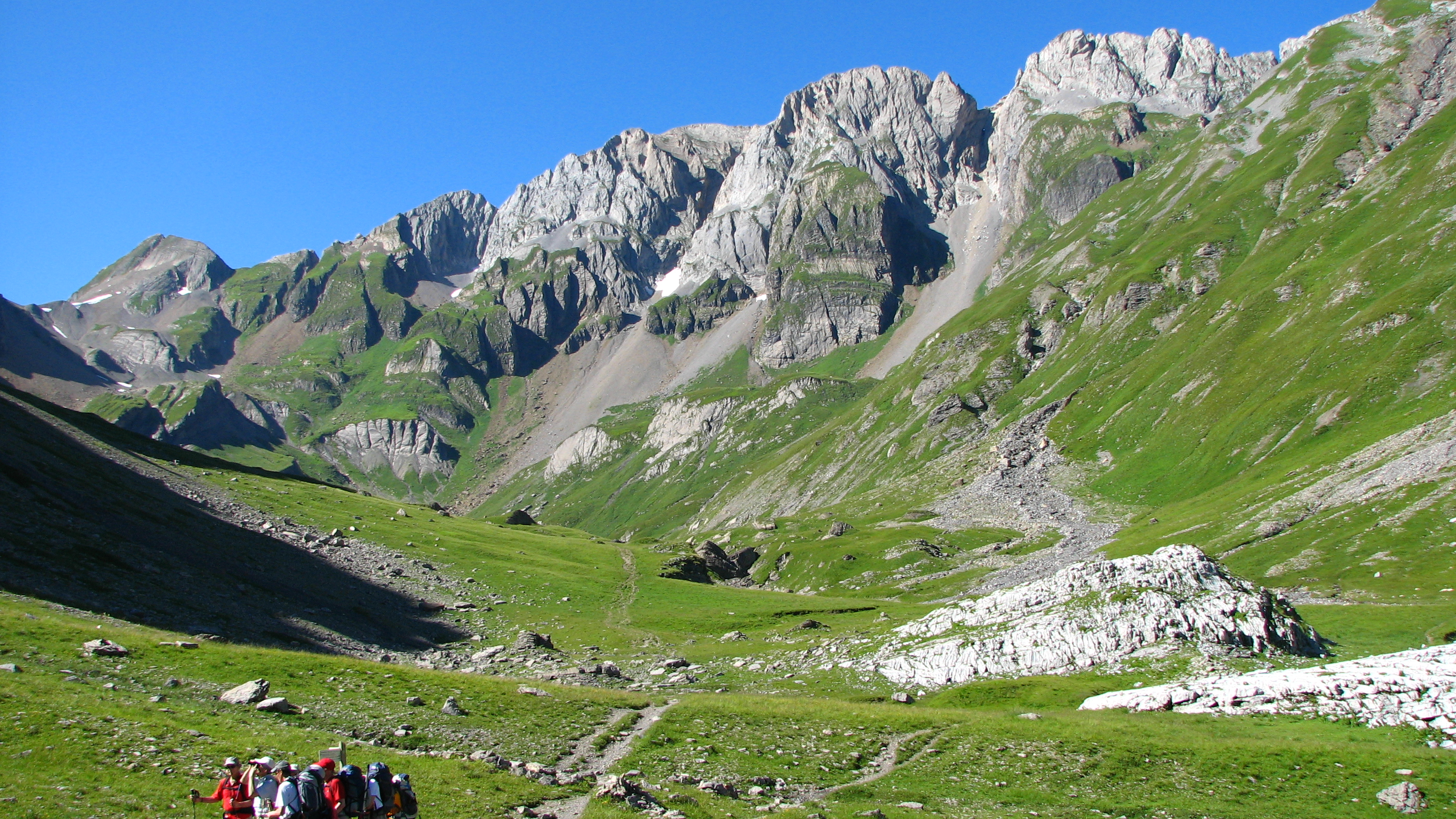 Dents Blanches seen from SE from a point near the refuge de la Vogealle, Haute-Savoie, France. The Dents Blanches are located at the border between France and Switzerland. Named points ltr: Corne au Taureau (2,630 m), Pointe de la Golette (2,638 m), the Dents Blanches Occidentales (2,709 m), Dent du Signal (2 728 m), Grande Brèche (2,711 m).